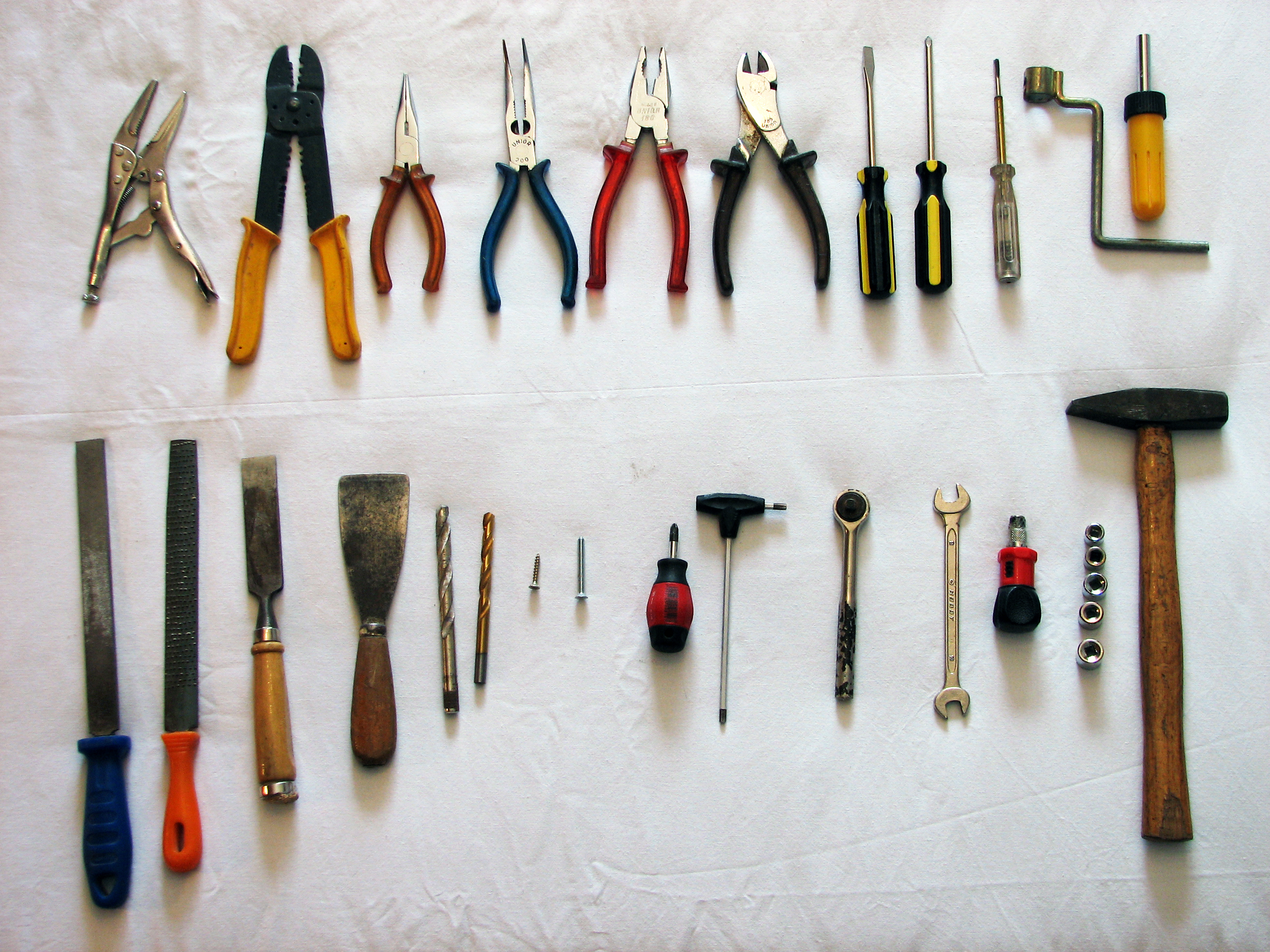 Furniture installation tools. Photo taken by romanm (talk).